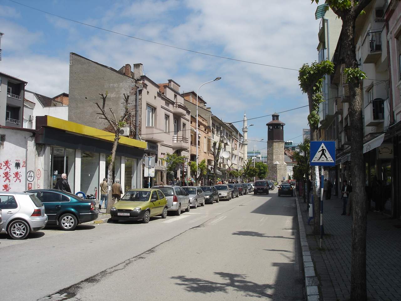 Clock tower in downtown Gostivar, Macedonia